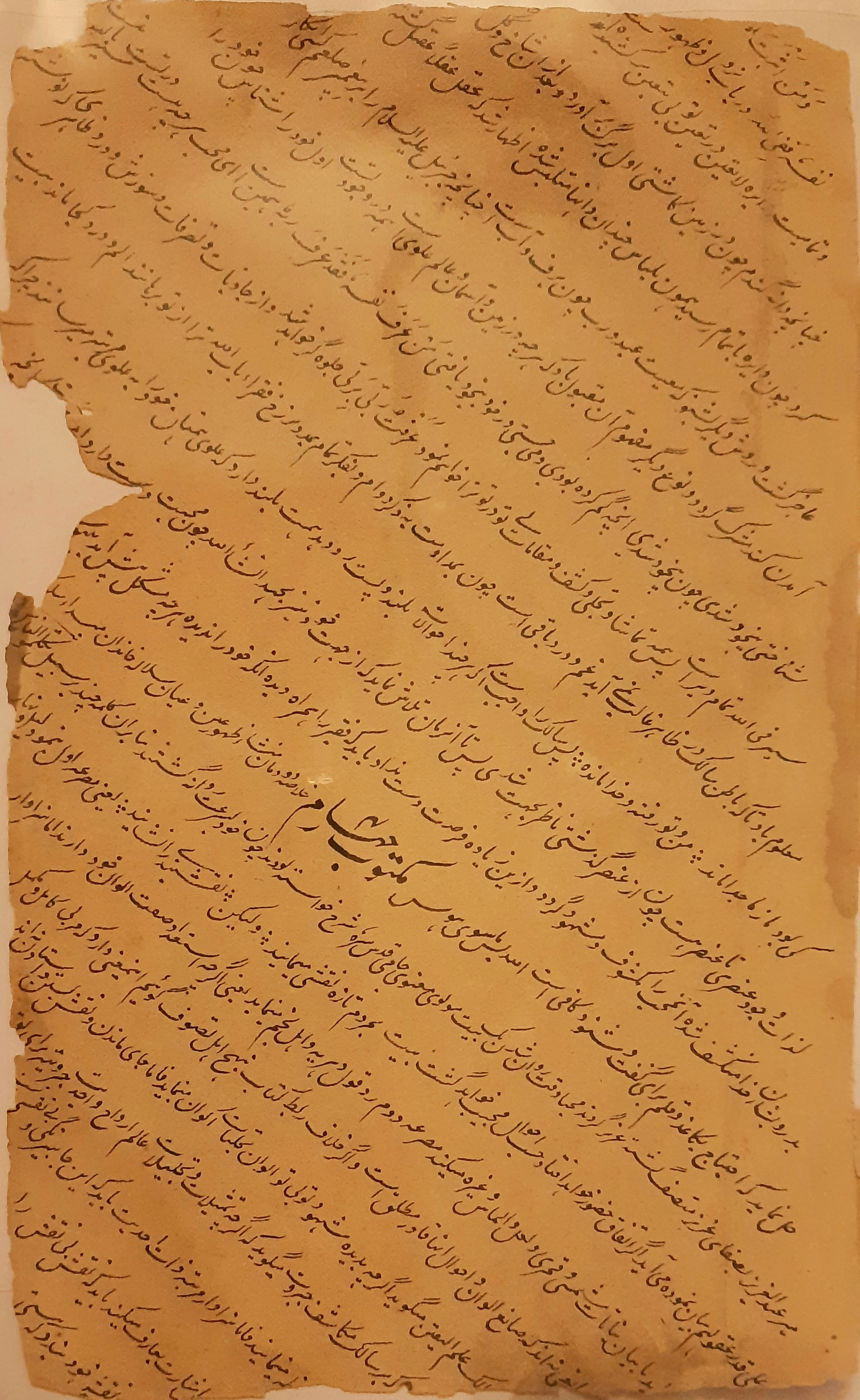 Maktoobat-e-Abulola book of Syedna Ameer Abulola noted by Shah Akbar Danapuri.